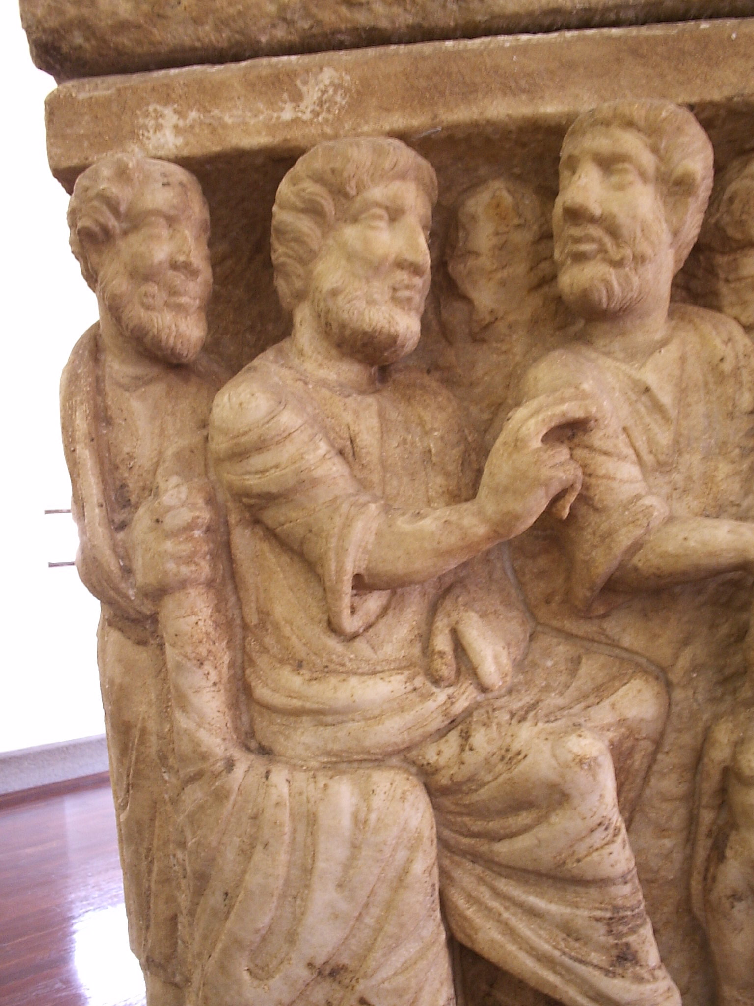 "Dogmatic Sarcophagus," 350 A.D. Vatican Museum, Rome, Italy. Displaying the far end of the work with the earliest known depiction of the Trinity creating Eve (or resurrecting Lazarus).